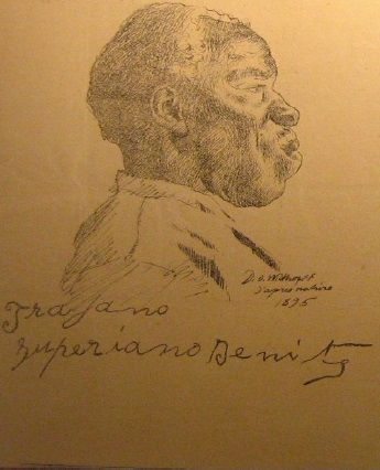 Caricature of Captain Trajano Benitez in the newspaper "Província do Pará", July 24, 1895.